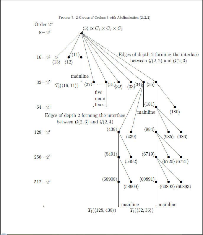 tree diagram of 2-groups with coclass 2,3,4 and abelianization of type (2,2,2)